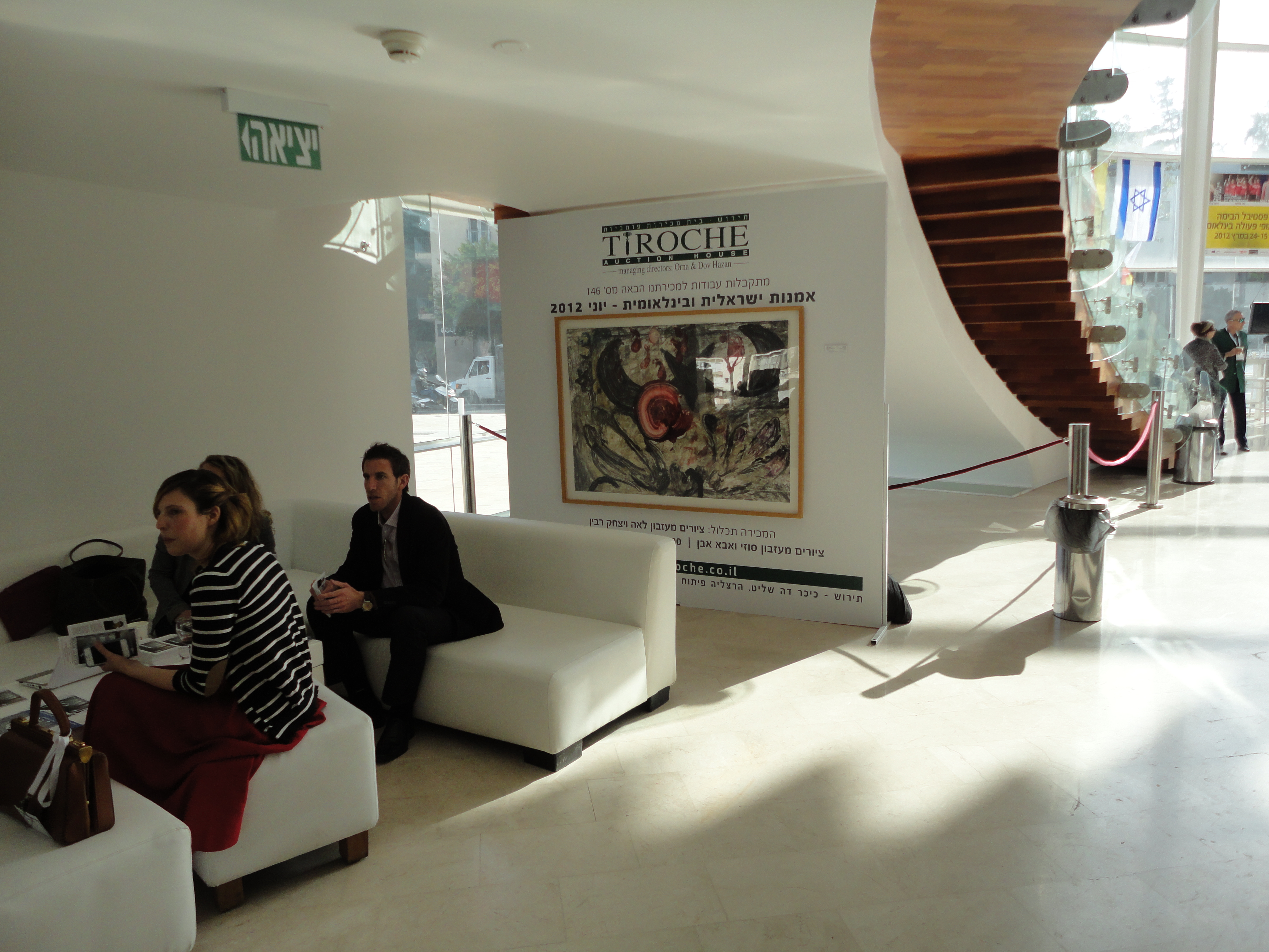 The lobbi of Habima National Theater during ARTfi. 2012.